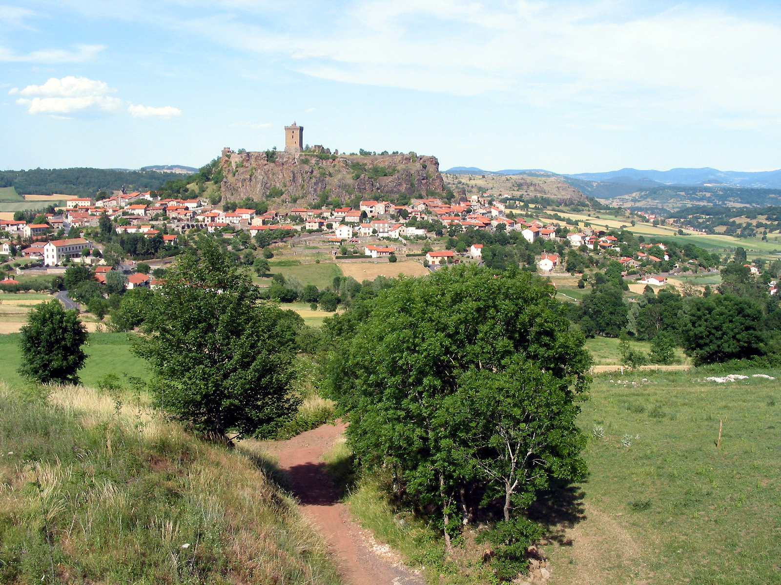 Polignac, Haute-Loire (France), the city, the fortress (XIth century) and its keep (XIVth century).